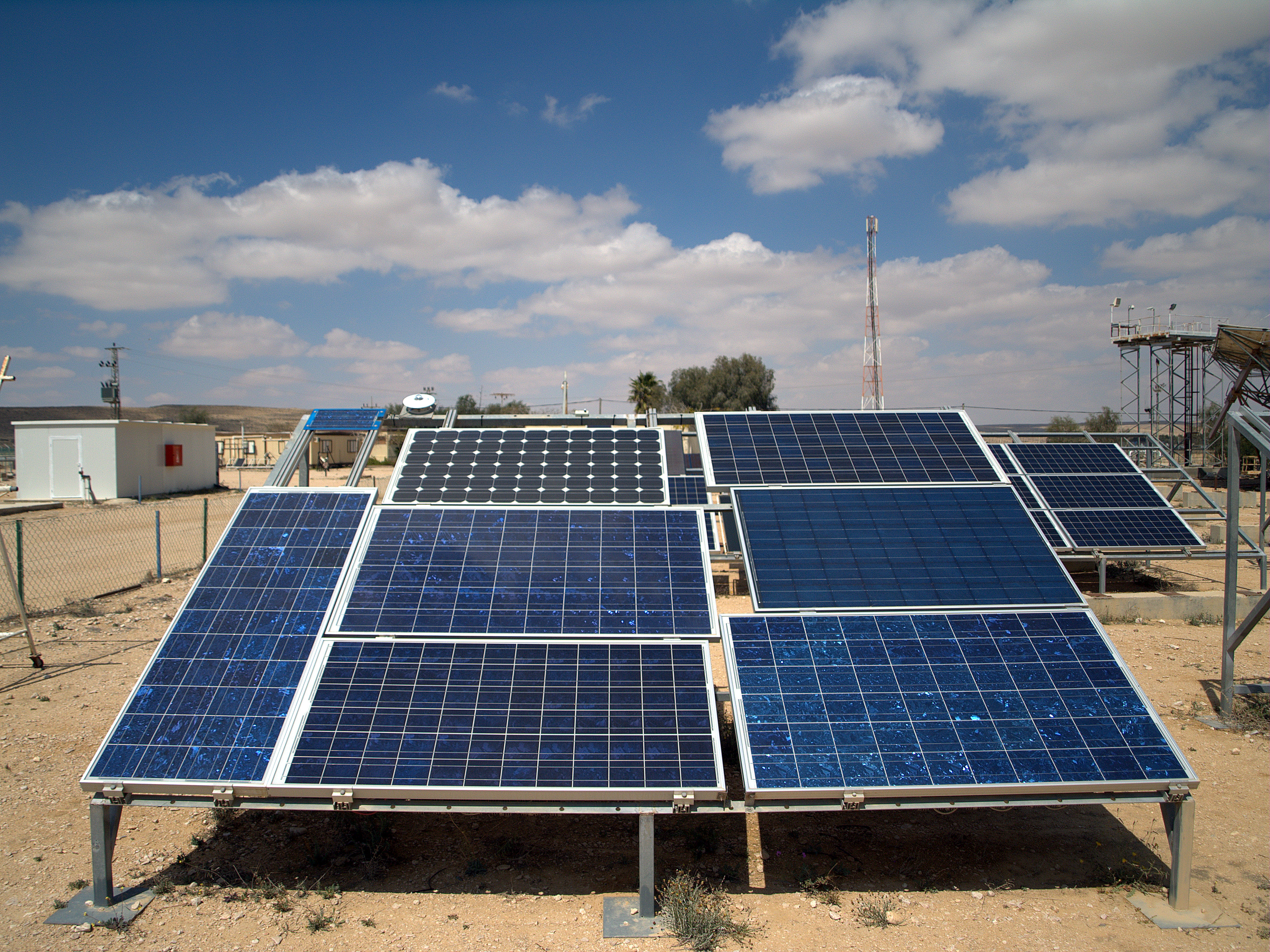 Photovoltaic array at the National Solar Energy Center, Jacob Blaustein Institutes for Desert Research, in the Negev Desert of Israel.